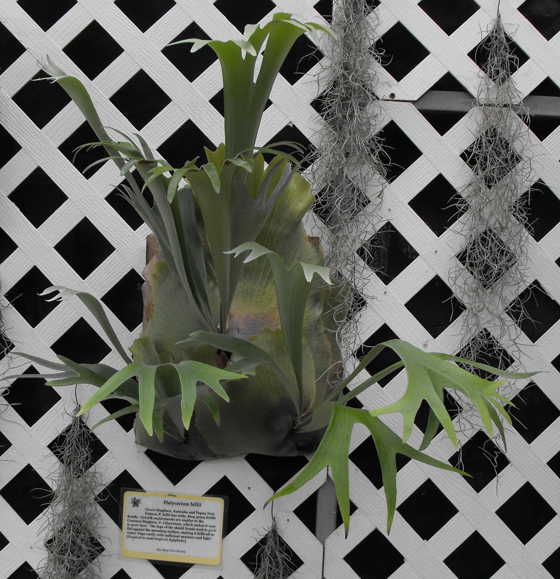 Platycerium hillii on display at the San Diego County Fair, California, USA.